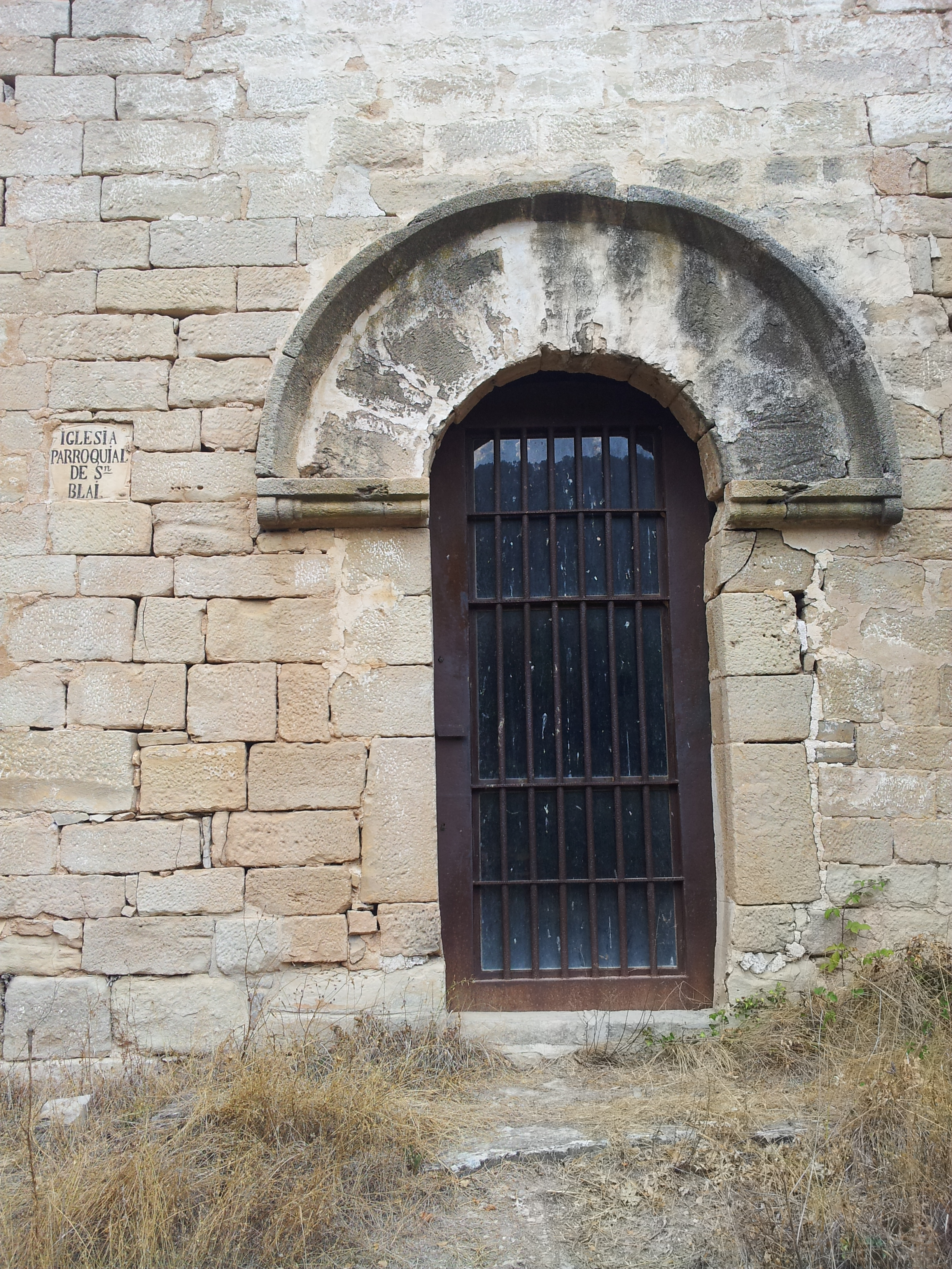 Door of the church of St. Blaise in El Fonoll